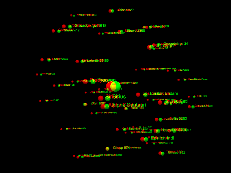 3D image of the nearest stars (within 14 light years), for red-green glasses. The images for the left and right eyes were created with POV-Ray and combined into a single image with ImageJ.